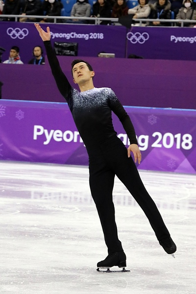 Patrick Chan (CAN) skates his short program at the 2018 Winter Olympic Games in PyeongChang (KOR)